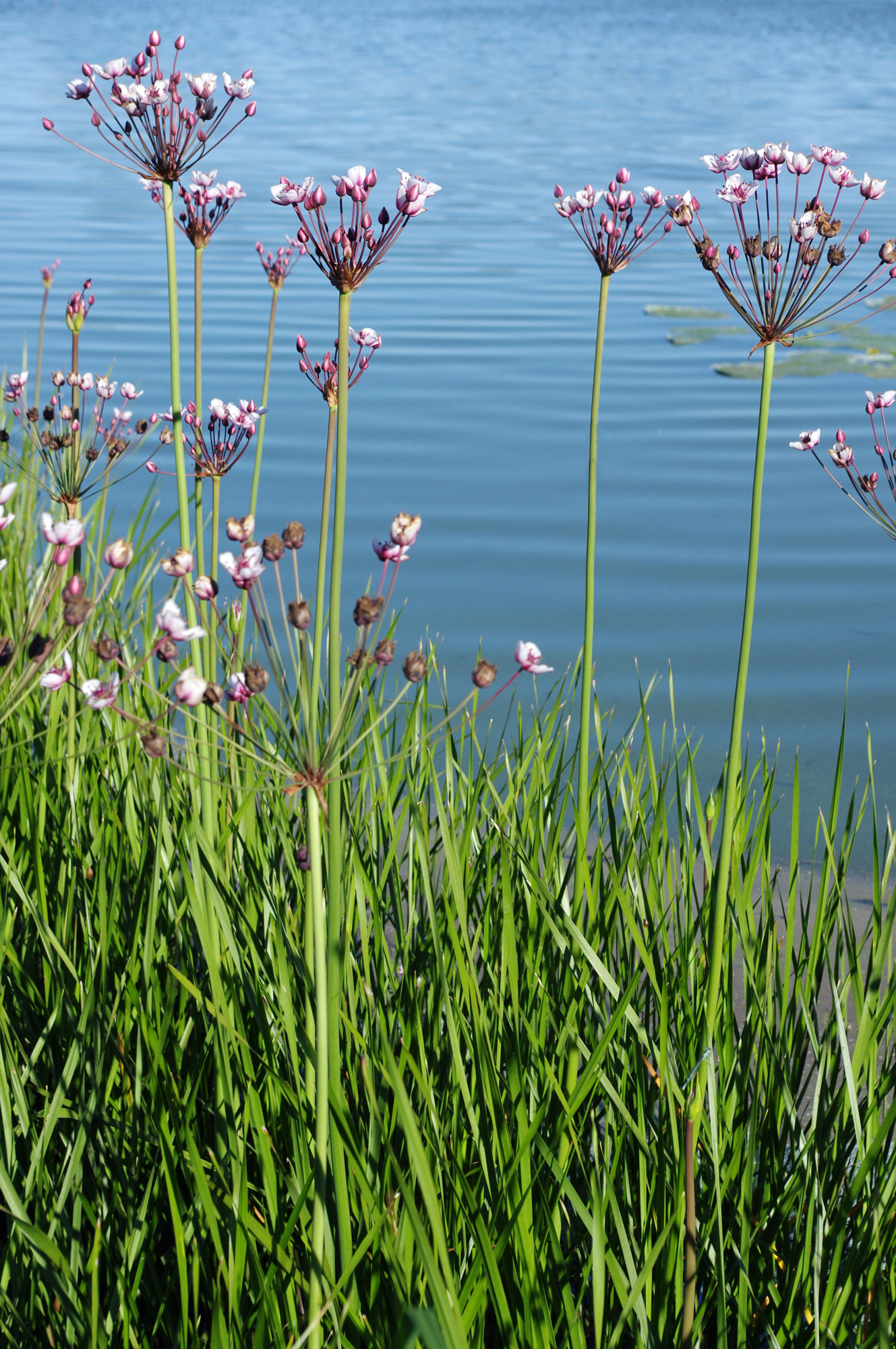 Aspect of the plant Flowering Rush, Butomus umbellatus, in a natural habitat near the Elbe River.